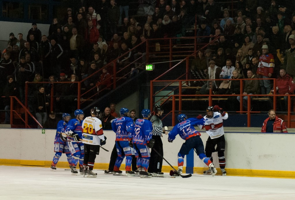 Game against rivals from Lippstadt